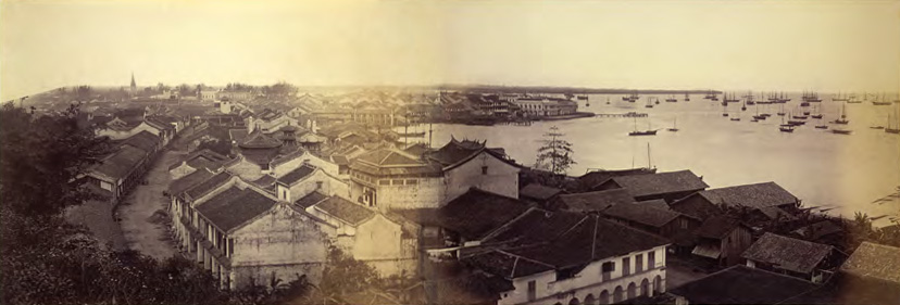 Panoramic view of the roads and harbour in Singapore